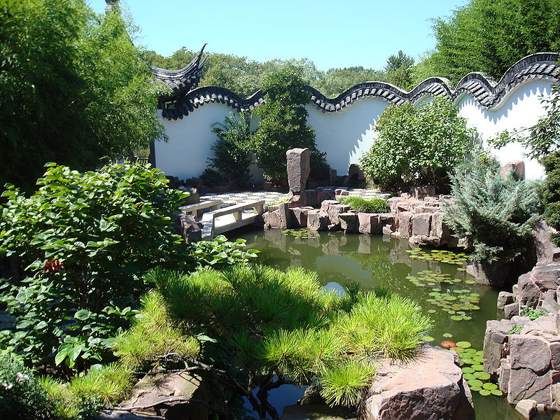 An image showing various elements of The New York Chinese Scholar's Garden.